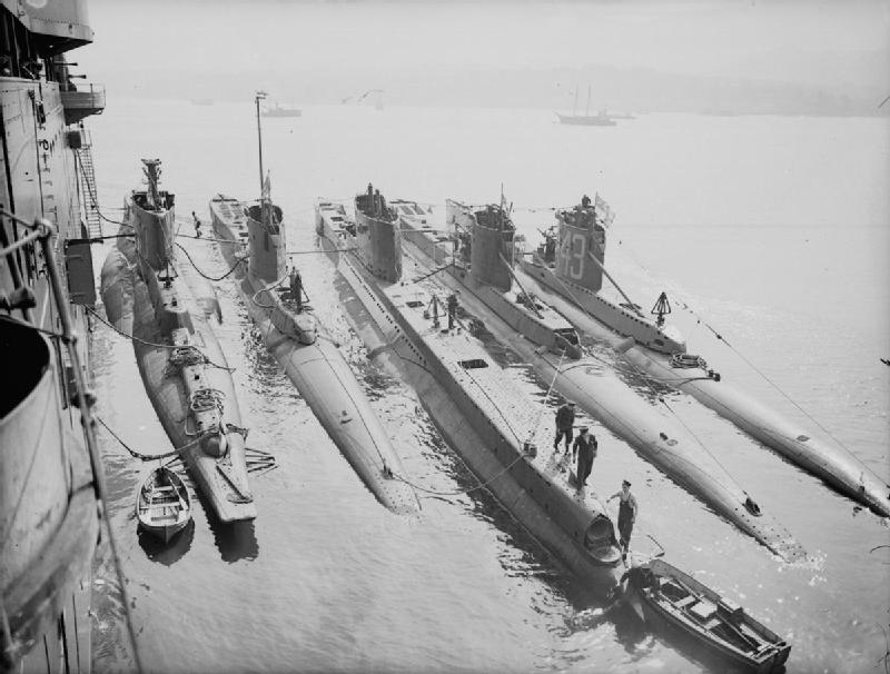 HMS UPRIGHT, 2nd from left, with other submarines of the Flotilla alongside the parent ship in Holy Loch. P 43 and possibly P 23 also visible.